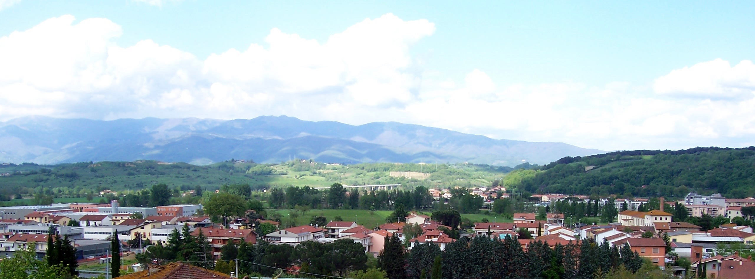 Panorama of Levane